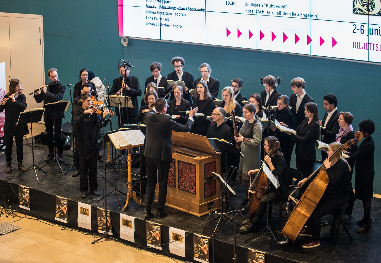 Stockholm Early Music Festival, SEMF, is offering an afternoon with early music in a public space in collaboration with Gallerian, Stockholm.